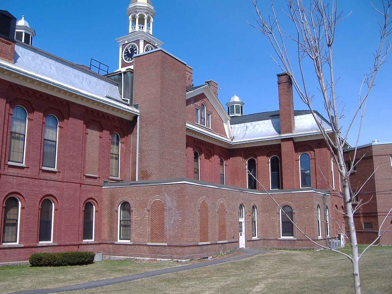 Rear of the Aroostook County Courthouse, located on Court Street in Houlton, Maine, United States. Built in 1859, it is listed on the National Register of Historic Places.